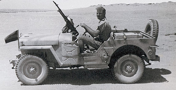 A Guards Patrol (G Patrol) Jeep of the Long Range Desert Group. Category:LRDG Category:Groups of World War II Category:Special forces of New Zealand Category:Special forces units and formations Category:Military units and formations established in 1940 Long Range Desert Group Long Range Desert Group